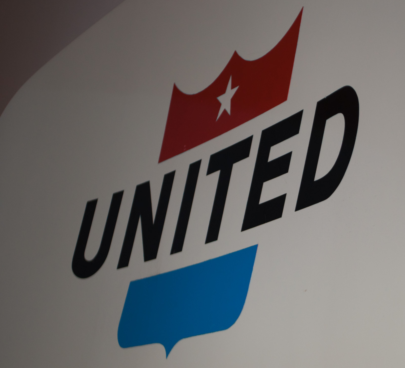 The 1960s version of the "Shield," which was the longtime symbol of United Airlines from its early years in the 1930s until 1969. However, the usage of the Shield was not very consistent over the years. United would not have an official symbol afterwards until 1974, when the Saul Bass-designed Tulip was adopted. The Tulip was retired in 2011 in the wake of the Continental Airlines merger; while the name of the airline remains United, the symbol is now Continental's Disco Ball. Photo taken at Flight Path Museum at the south end of Los Angeles International Airport, covering the history of aviation, especially as it pertains to LAX.